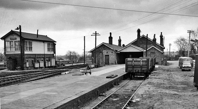 Blisworth Station. View eastward, towards Bletchley and London on the West Coast Main Line. To the left of the signal box a branch (closed 4/1/60) ran to nearby Northampton. The station was closed to passengers that day, to goods later (6/7/64). At the date of the photograph (4/62) the main line station buildings had already been removed: those on the right were the remains of the terminus of the ex-Stratford-on-Avon & Midland Junction line, which ran via Towcester to Stratford and Broom Junction until 7/4/52, with a branch from Towcester to Banbury until 27/4/51.